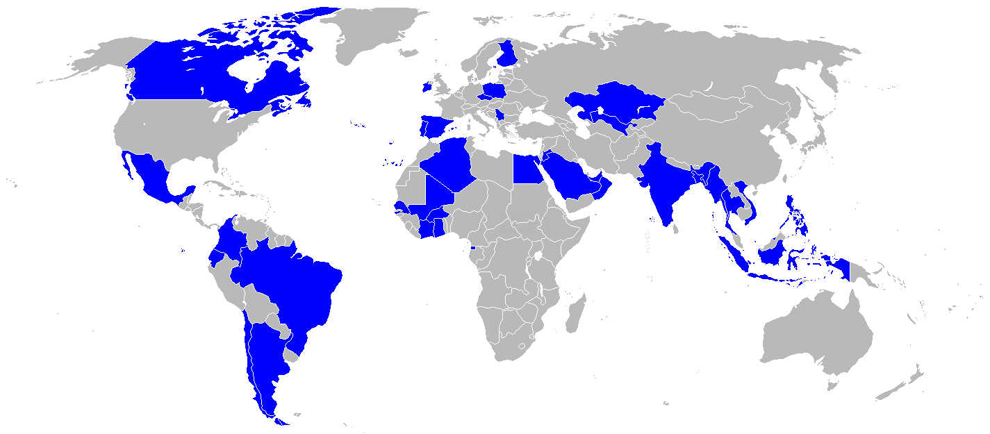 World operators of the EADS CASA C-295 in blue.